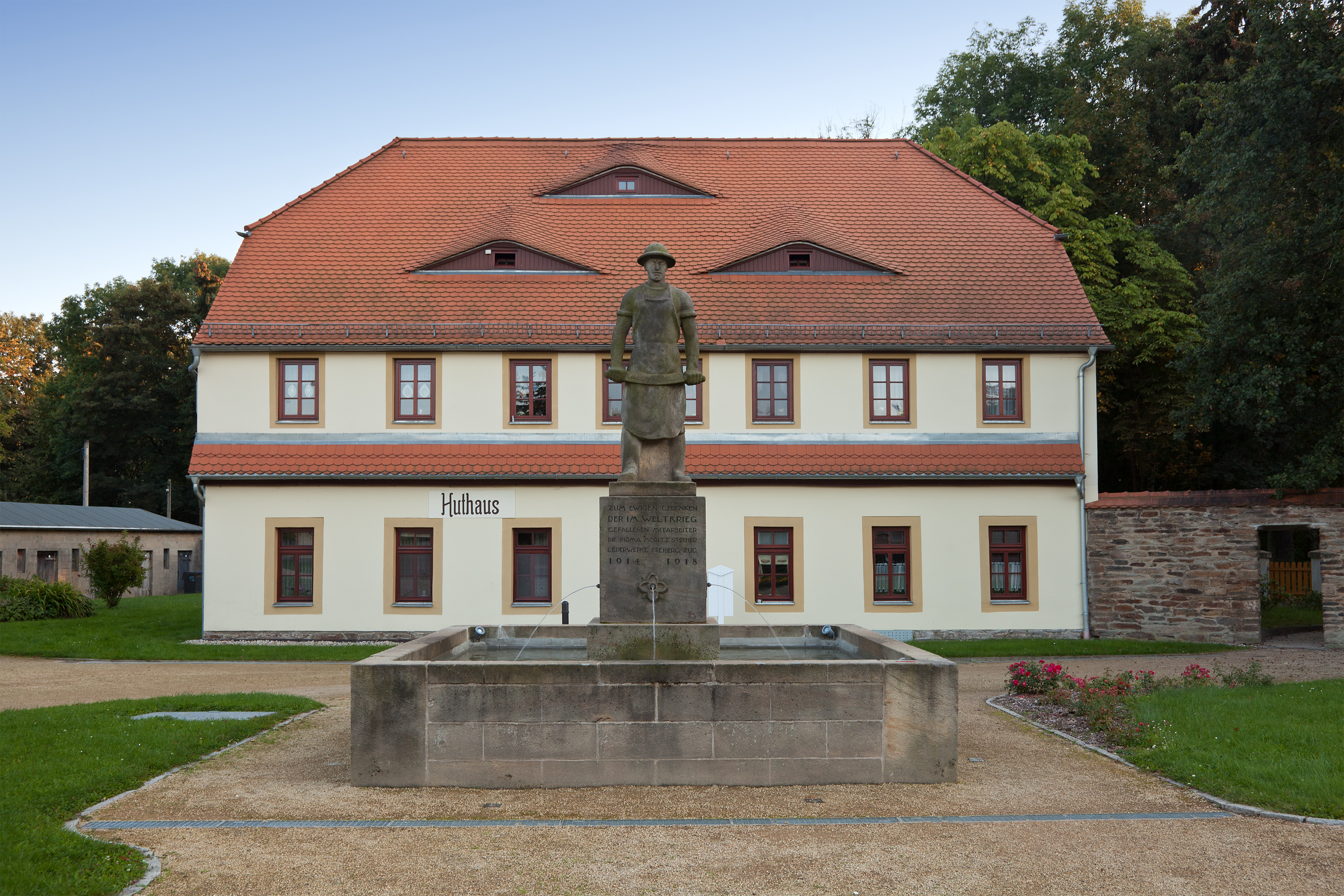 Brand-Erbisdorf/Freiberg, Zugspitze, Mendenschacht, Mordgrube (former mine, pit head building)